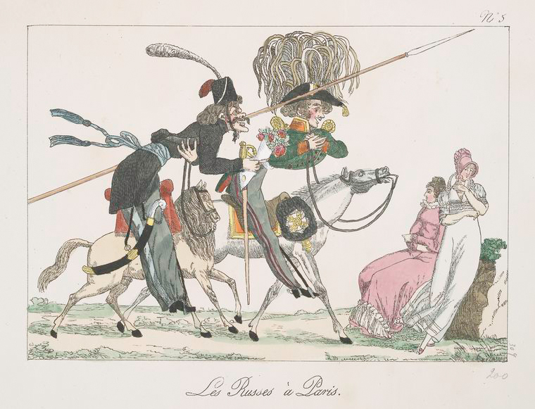 Russians in Paris. 1814. From D.A. Rovinskii collection.